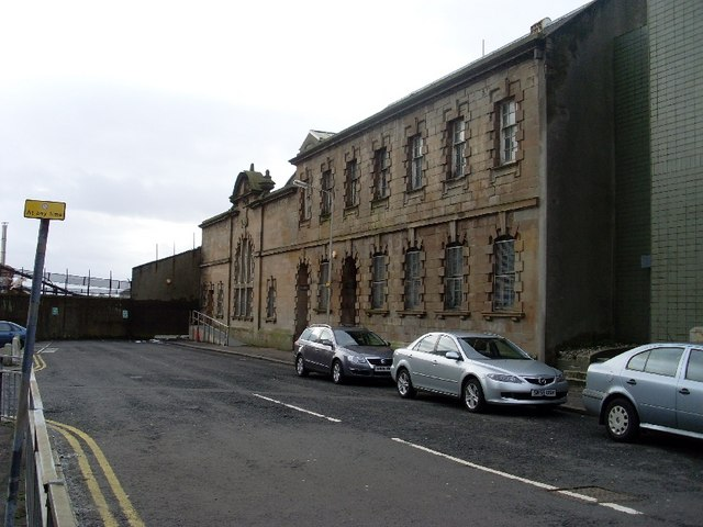 Bruce Street swimming baths Former swimming baths in Clydebank town centre.